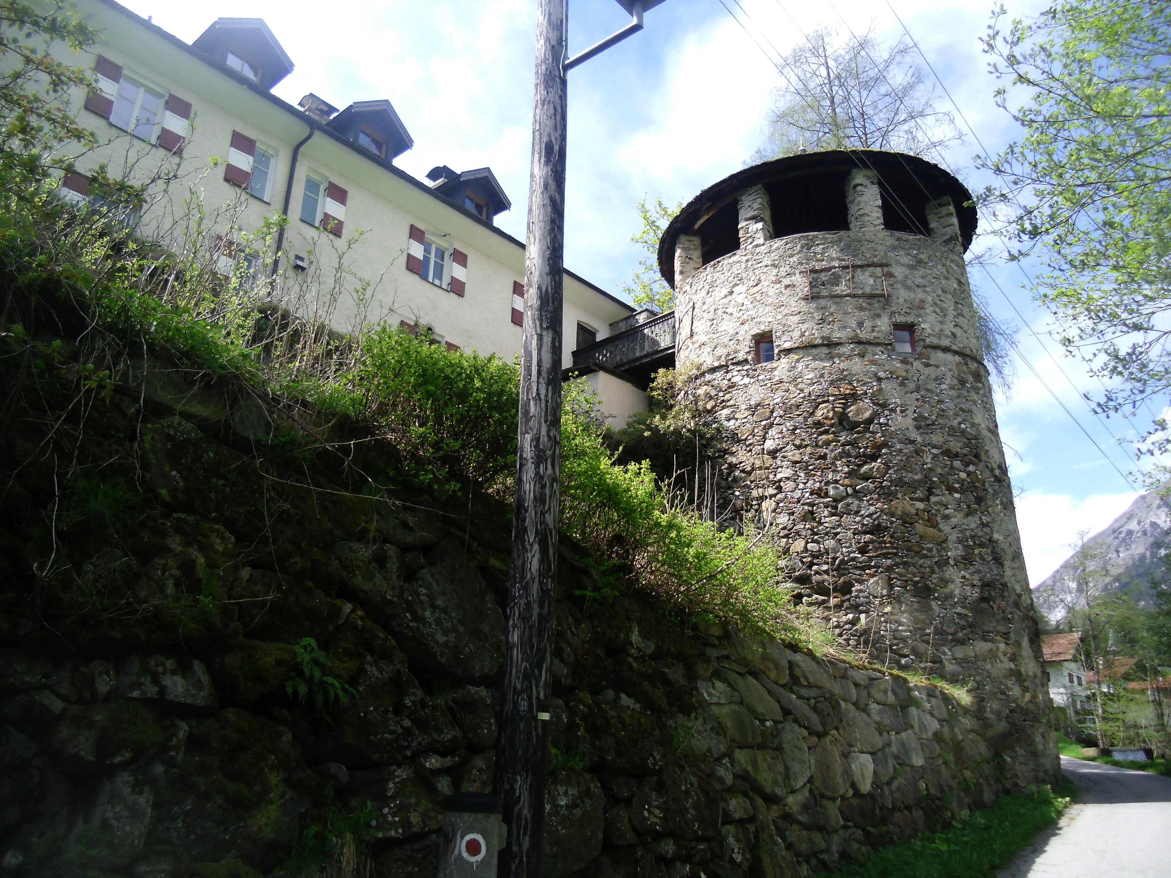 Schloss Schneeberg